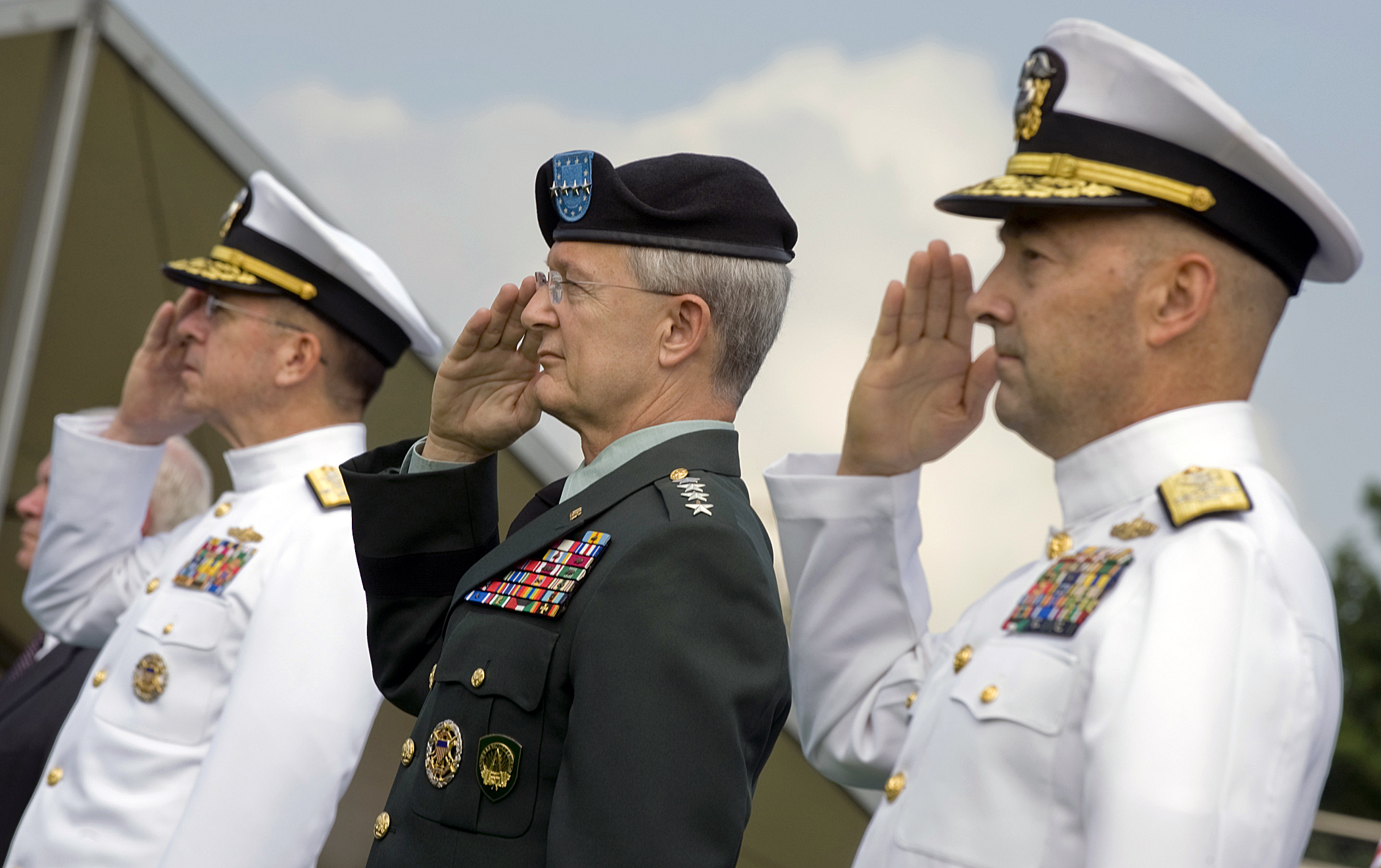 U.S. Navy Adm. Mike Mullen, chairman of the Joint Chiefs of Staff, U.S. Army Gen. John Craddock, outgoing commander, and U.S. Navy Adm. James G. Stavridis, incoming commander, salute during the national anthem at the U.S. European Command change of command ceremony at Patch Barracks in Stuttgart, Germany, June 30, 2009. DoD photo by U.S. Navy Petty Officer 1st Class Chad J. McNeeley